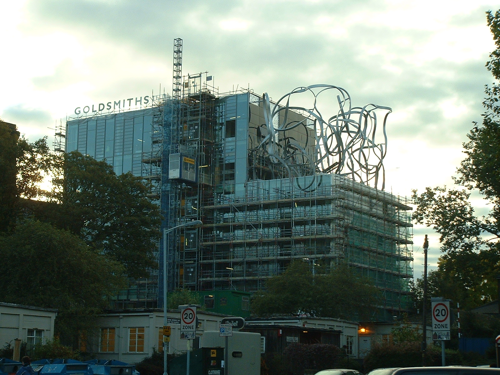 The Ben Pimlott building, Goldsmith's College